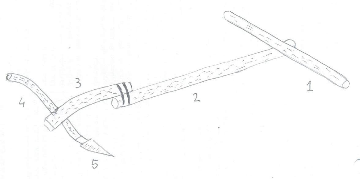 an ard plough.